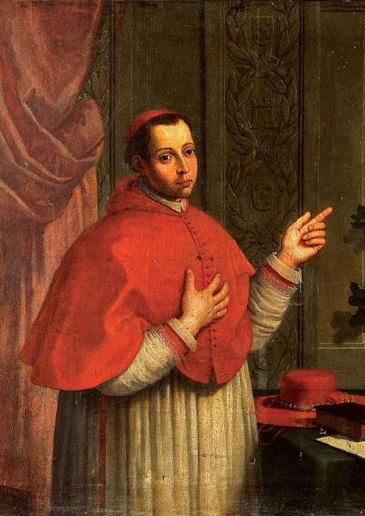 Cardeal e Arcebispo de Évora